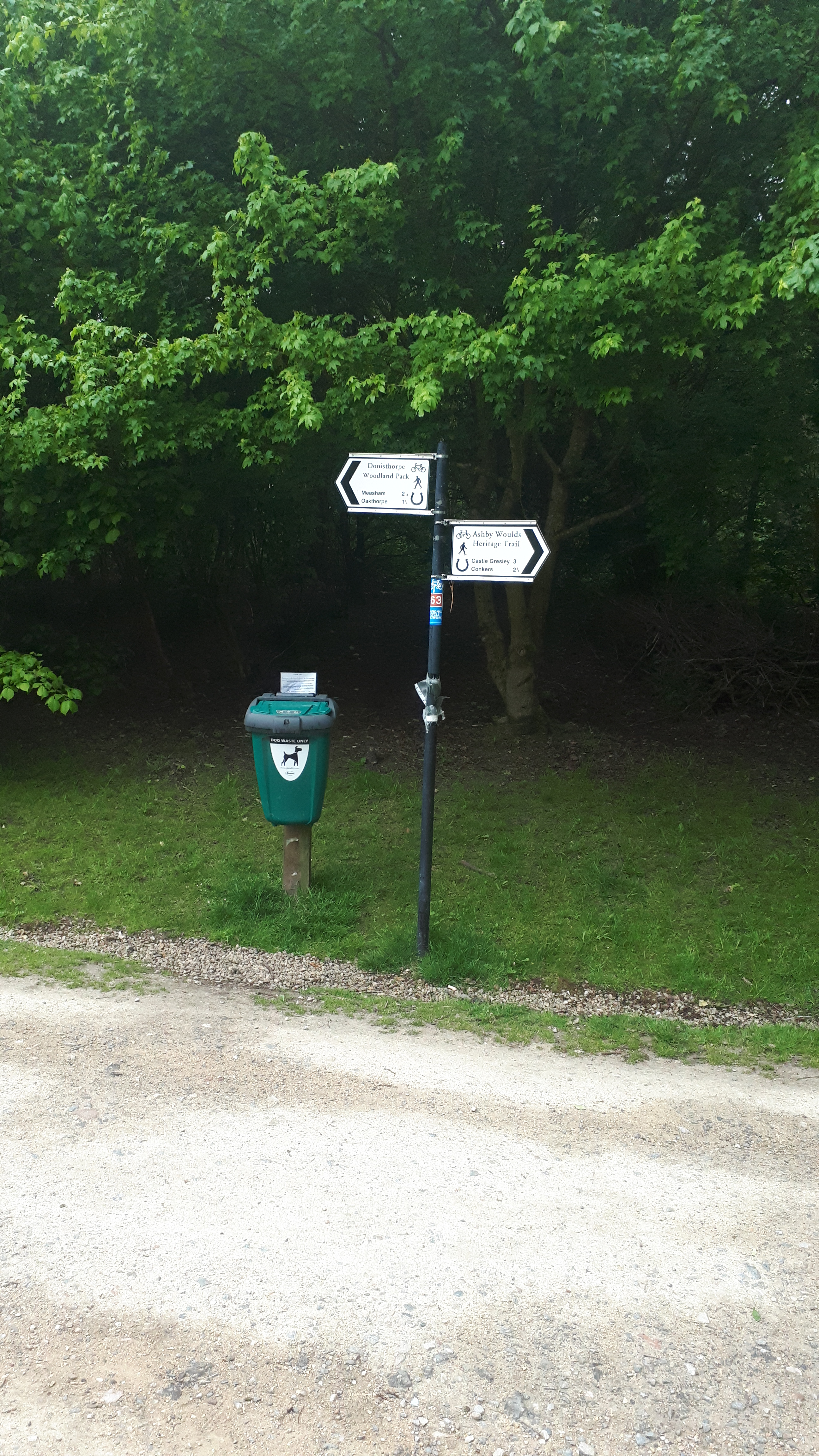 Trail sign post in park with dog pooh bin